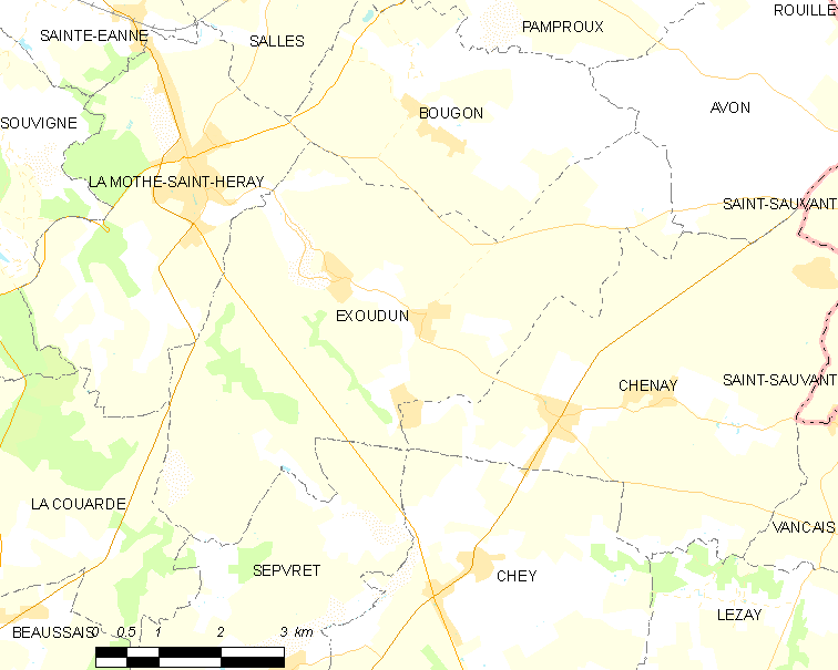 Map of French municipality Exoudun